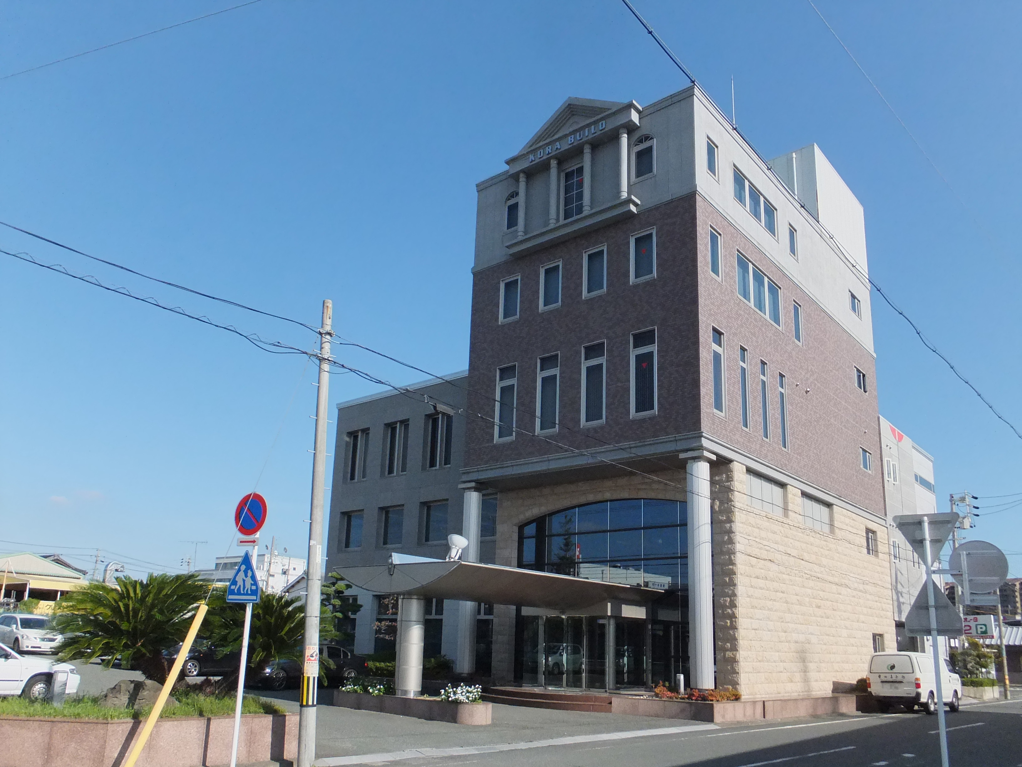 Headquarters of KORA CO., LTD. (株式会社甲羅), locaed at 3-1-7 Hgashiwaki, Toyohashi, Aichi, Japan